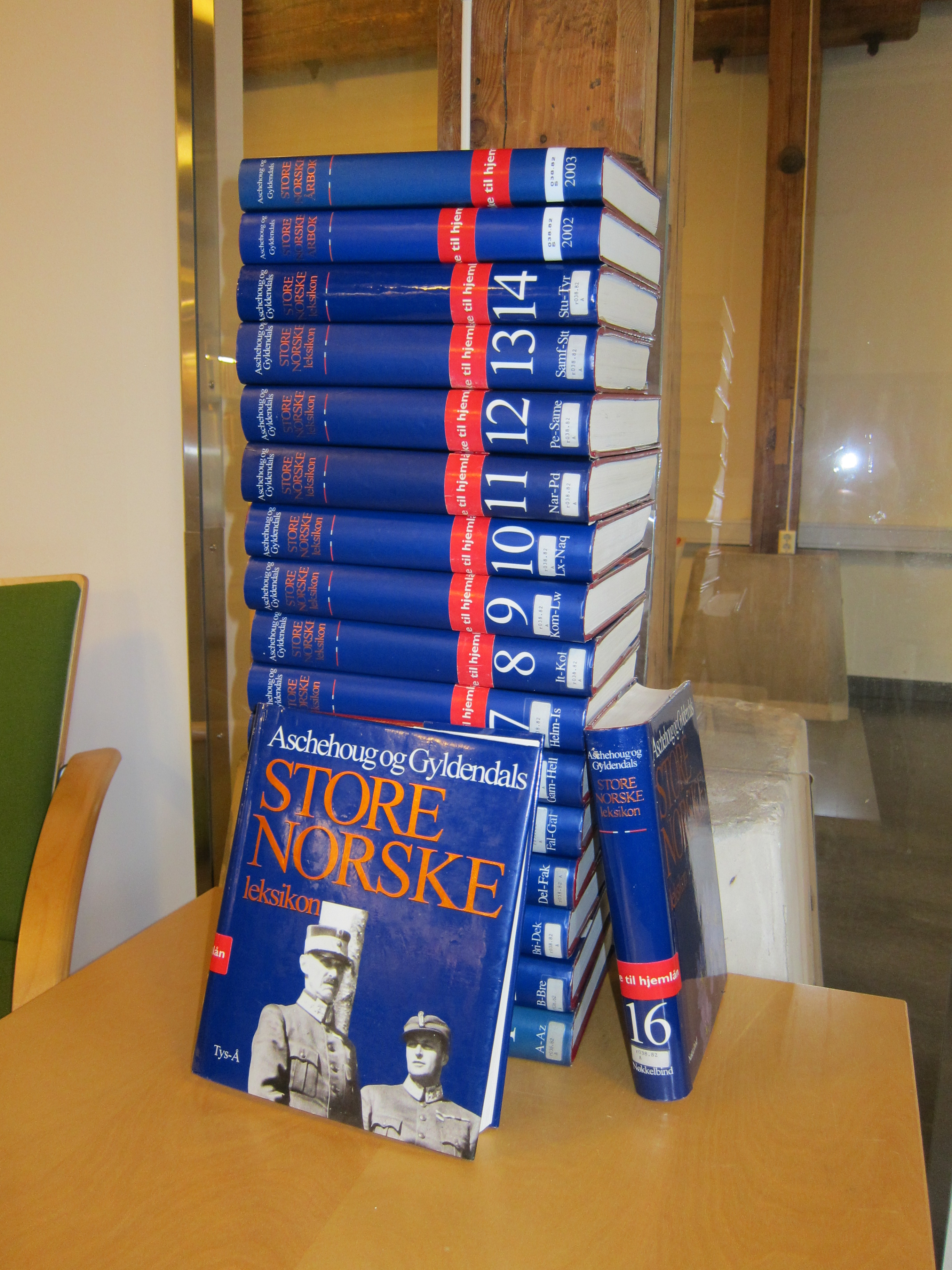 The complete last edition of Aschehoug og Gyldendals Store norske leksikon in a total of 16 volumes plus 2 supplementary volumes.